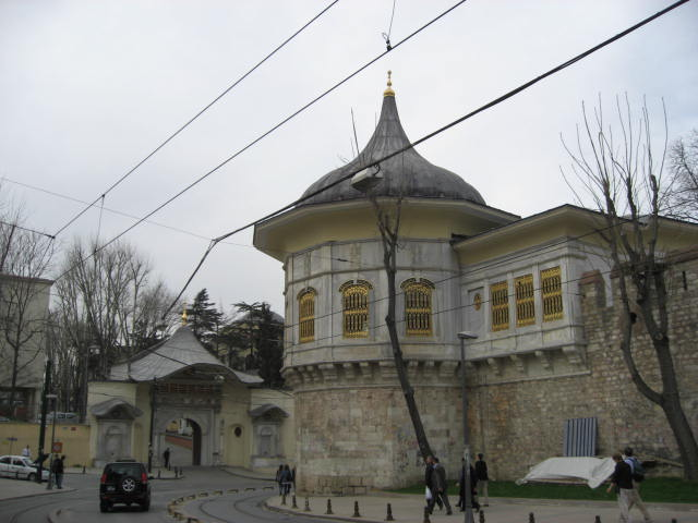 The Alay Kiosk at Gülhane Park, used by the sultan for viewing pleasures. After extensive renovations in 2007 reopened as coffee house.